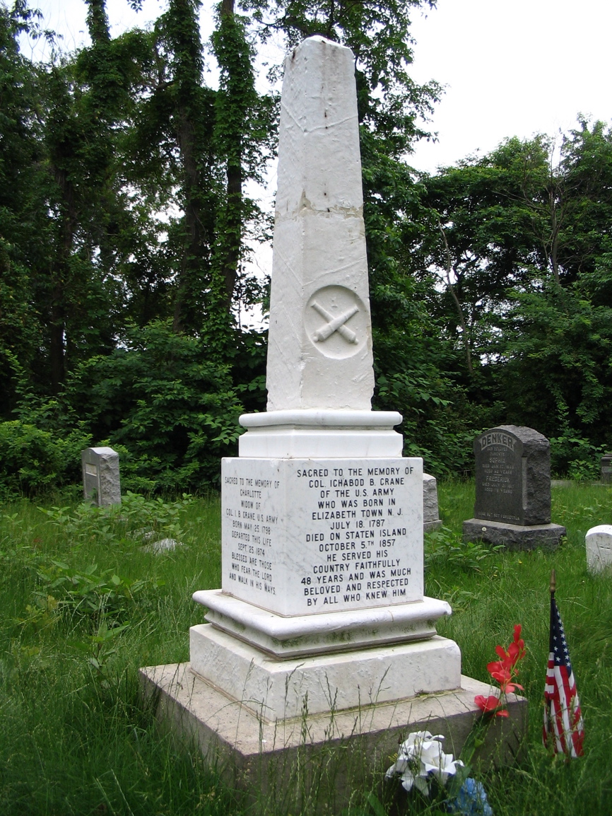 Ichabod Crane monument. Asbury Methodist Cemetery, Staten Island, New York.